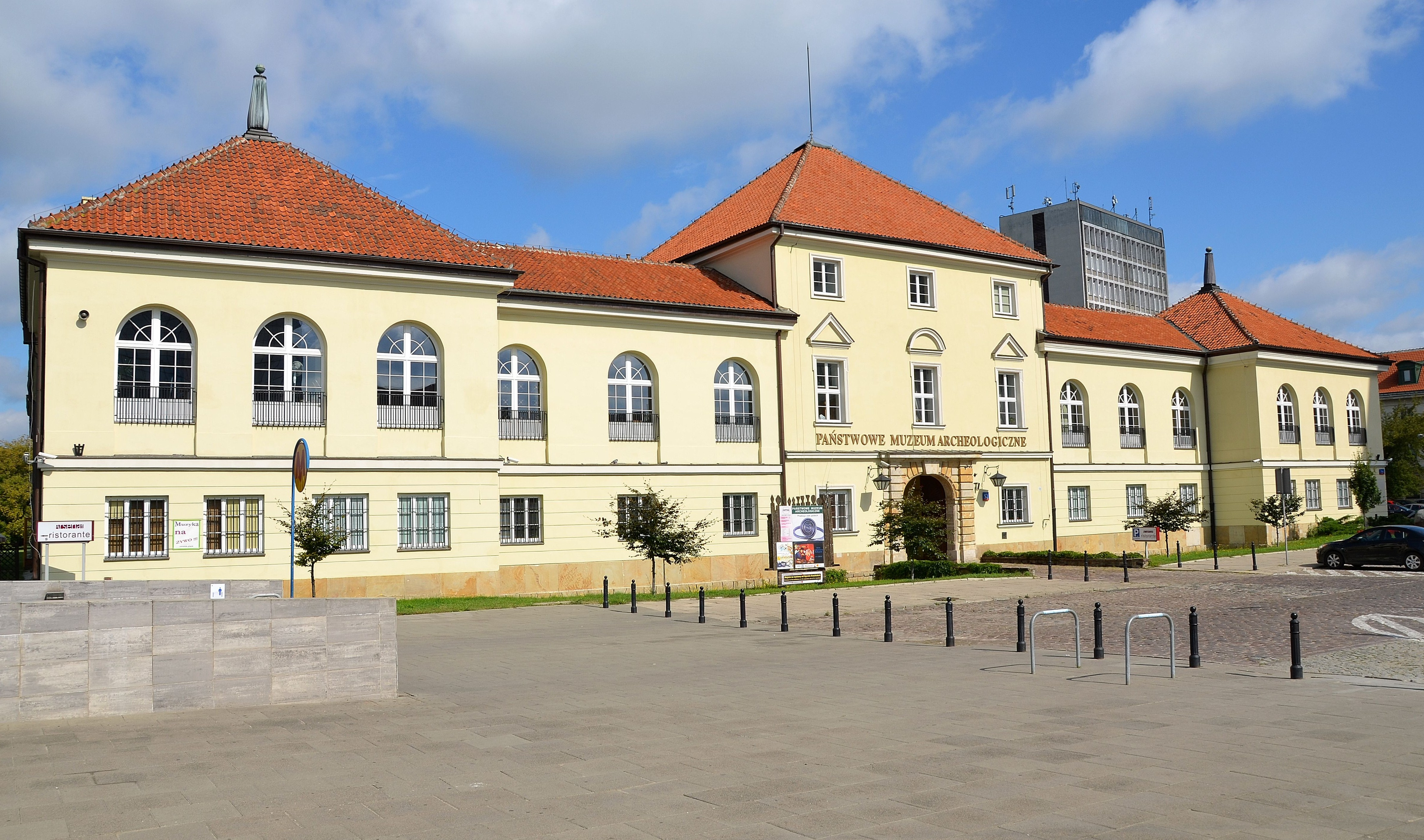 Former Royal Arsenal building in Warsaw